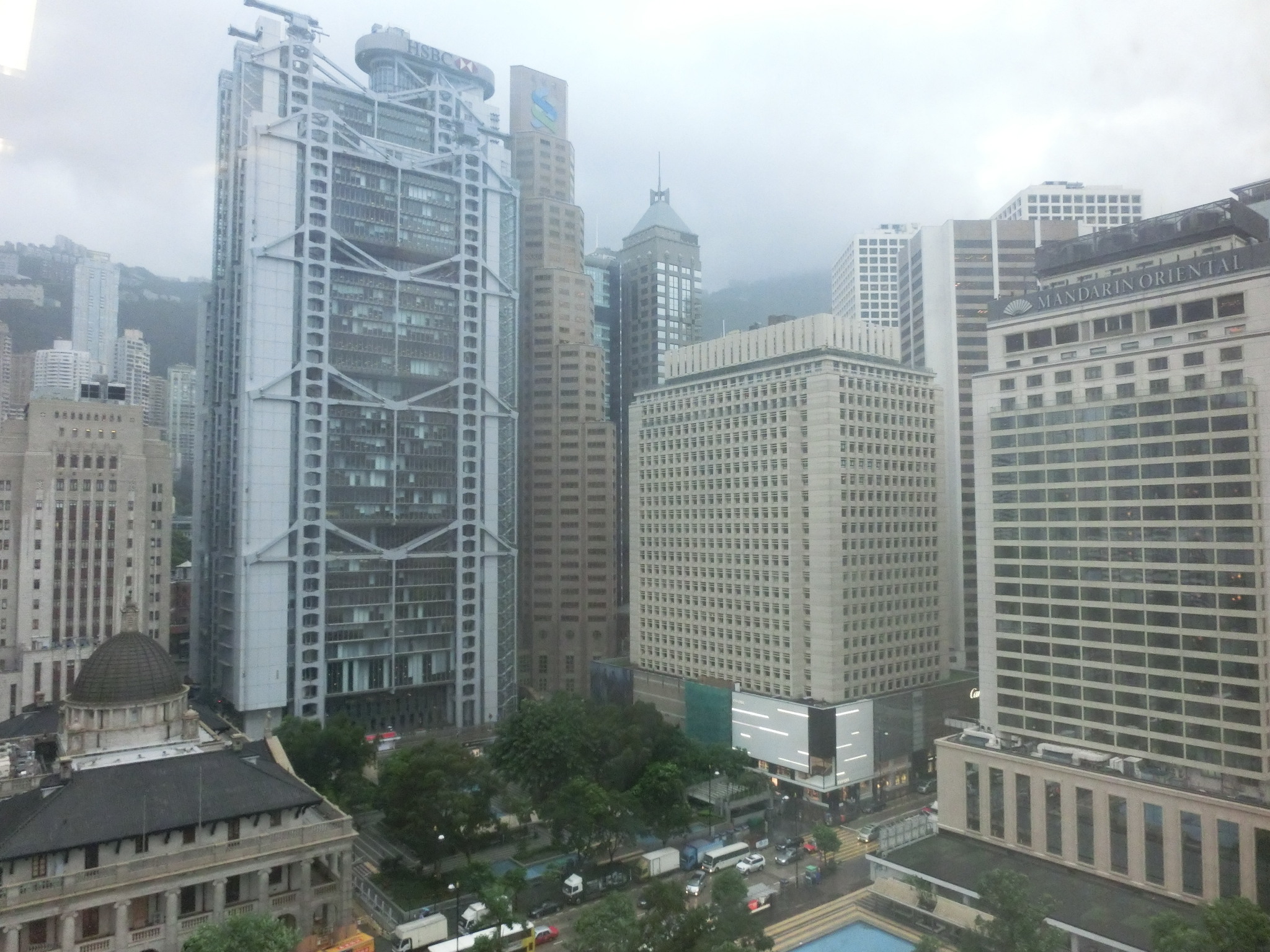 由香港大會堂外望皇后像廣場, Statue Square, Central, Hong Kong